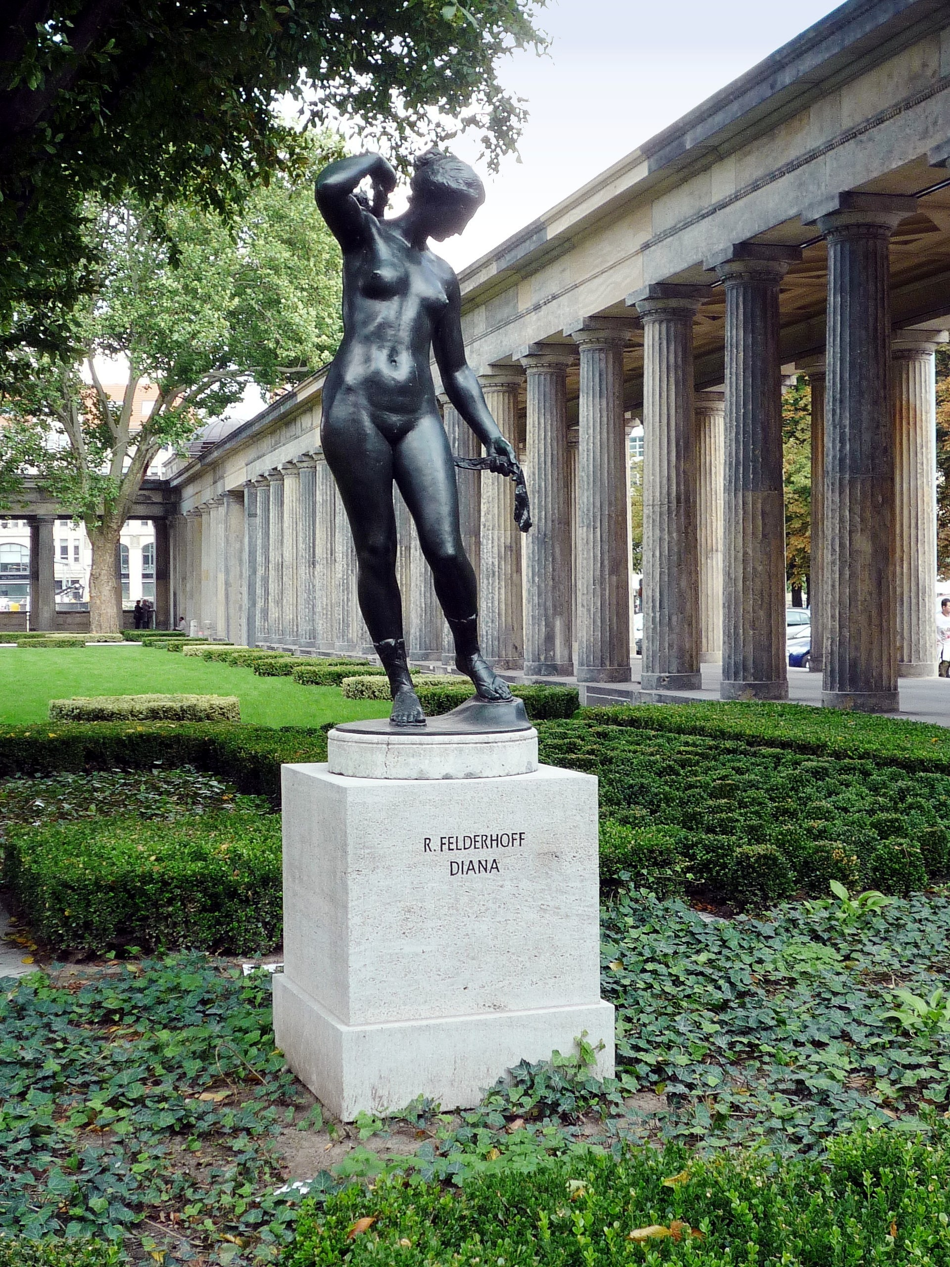 Berlin, Museumsinsel. The planted court-yard with colonnades in front of Neues Museum and Alte Nationalgalerie. Sculpture "Diana" by Reinhold Felderhoff (1865-1919).